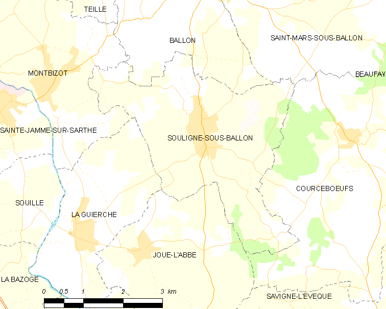 Map of French municipality